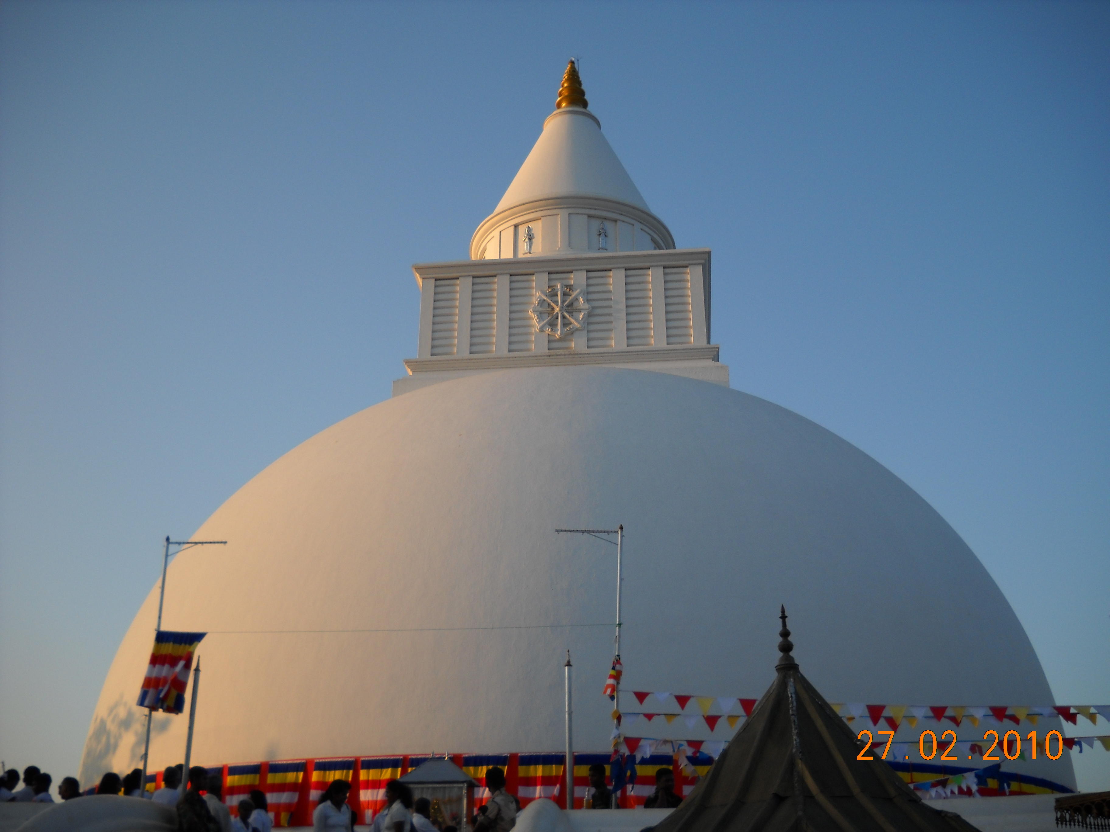 Kirivehera dageba at Katharagama in Sri Lanka සිංහල: කතරගම කිරිවෙහෙර